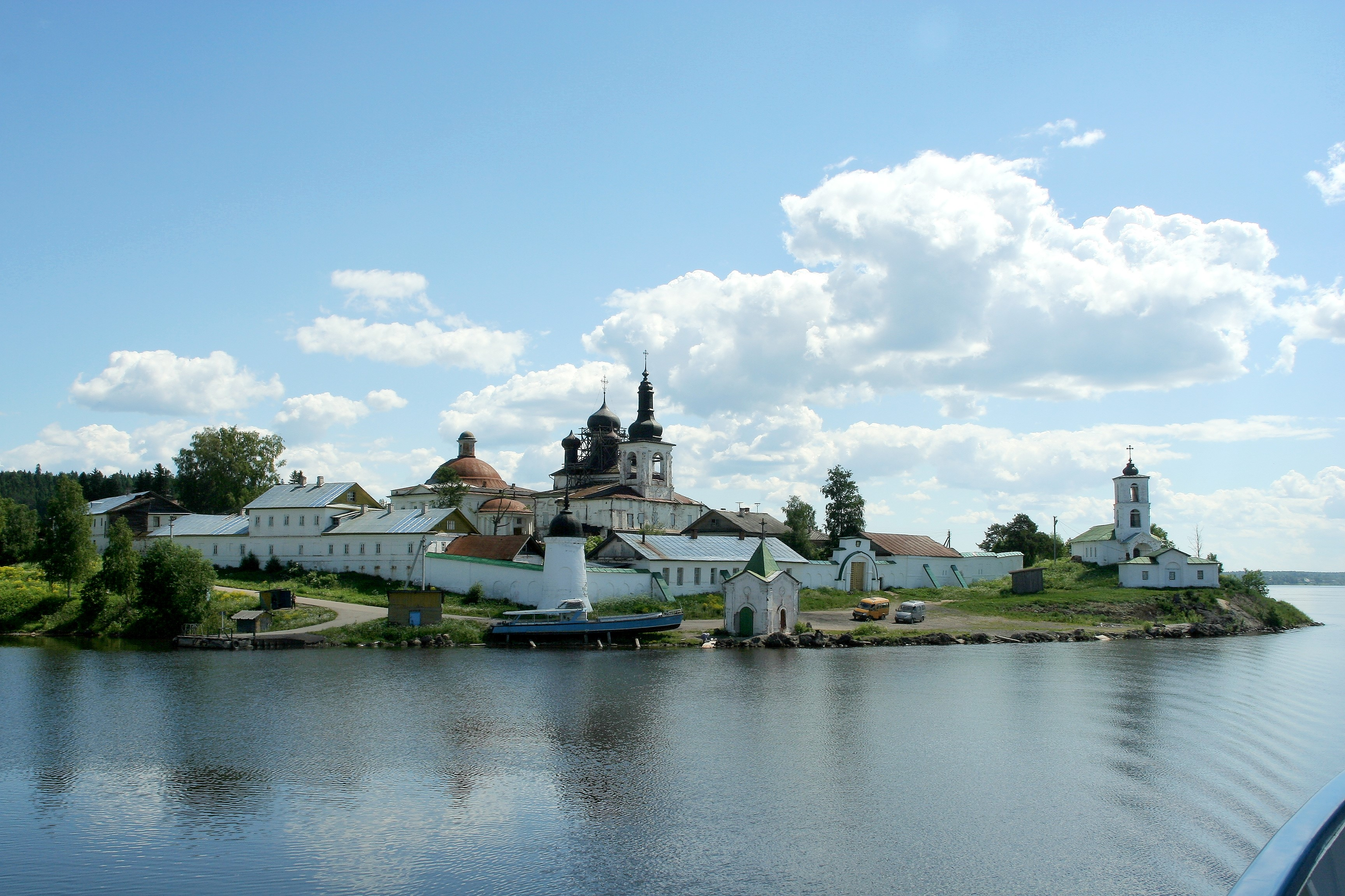 Nunnery in Goritsy